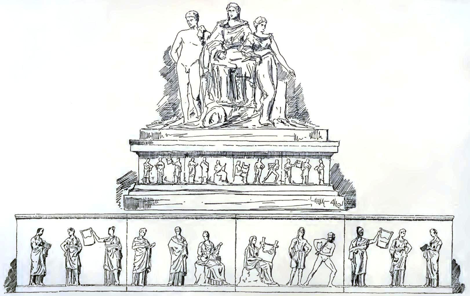 slabs with the reliefs decorating the base of the statues of Leto, Apollo and Artemis in their temple at Mantineia as described by Pausanias